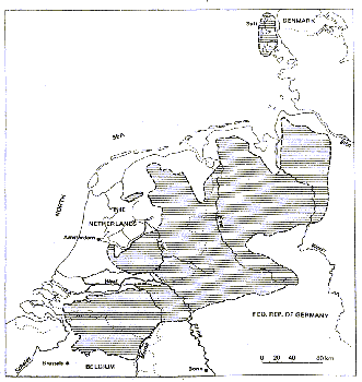 distribution of Anthrosols in NW Europe